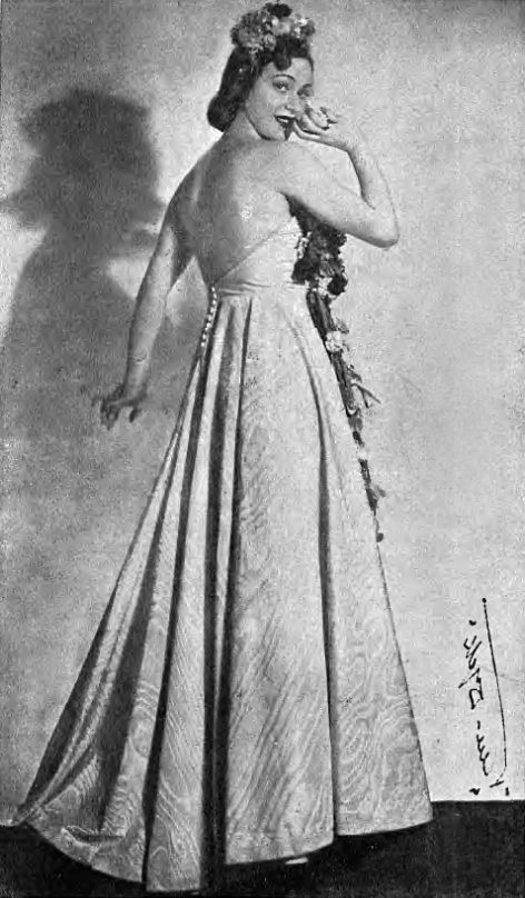 Loda Halama, Polish actress